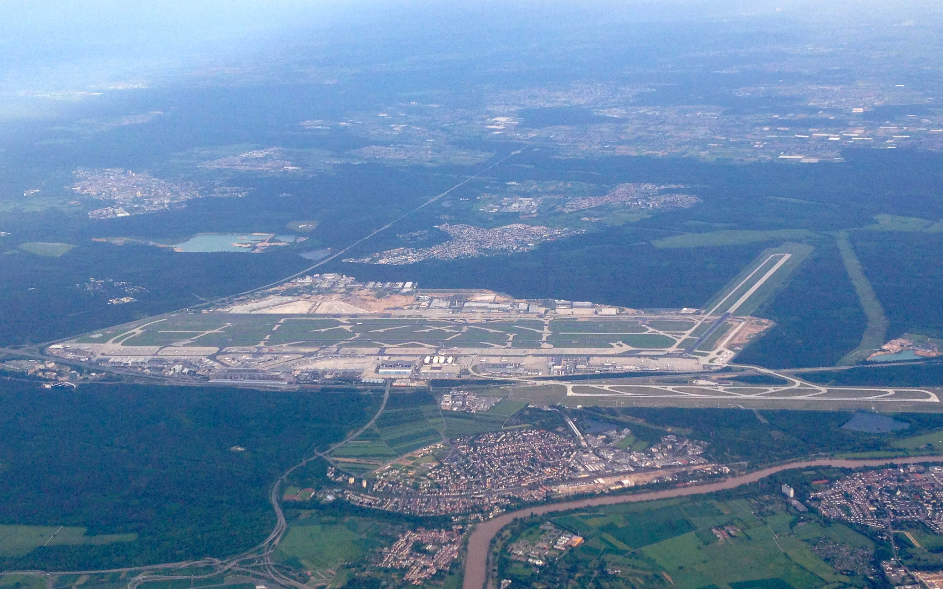 airview of Frankfurt Rhein-Main International Airport (June 2013)